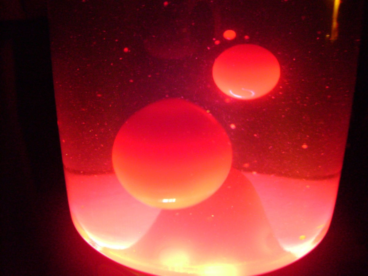 Wax bubbles in a lava lamp during operation